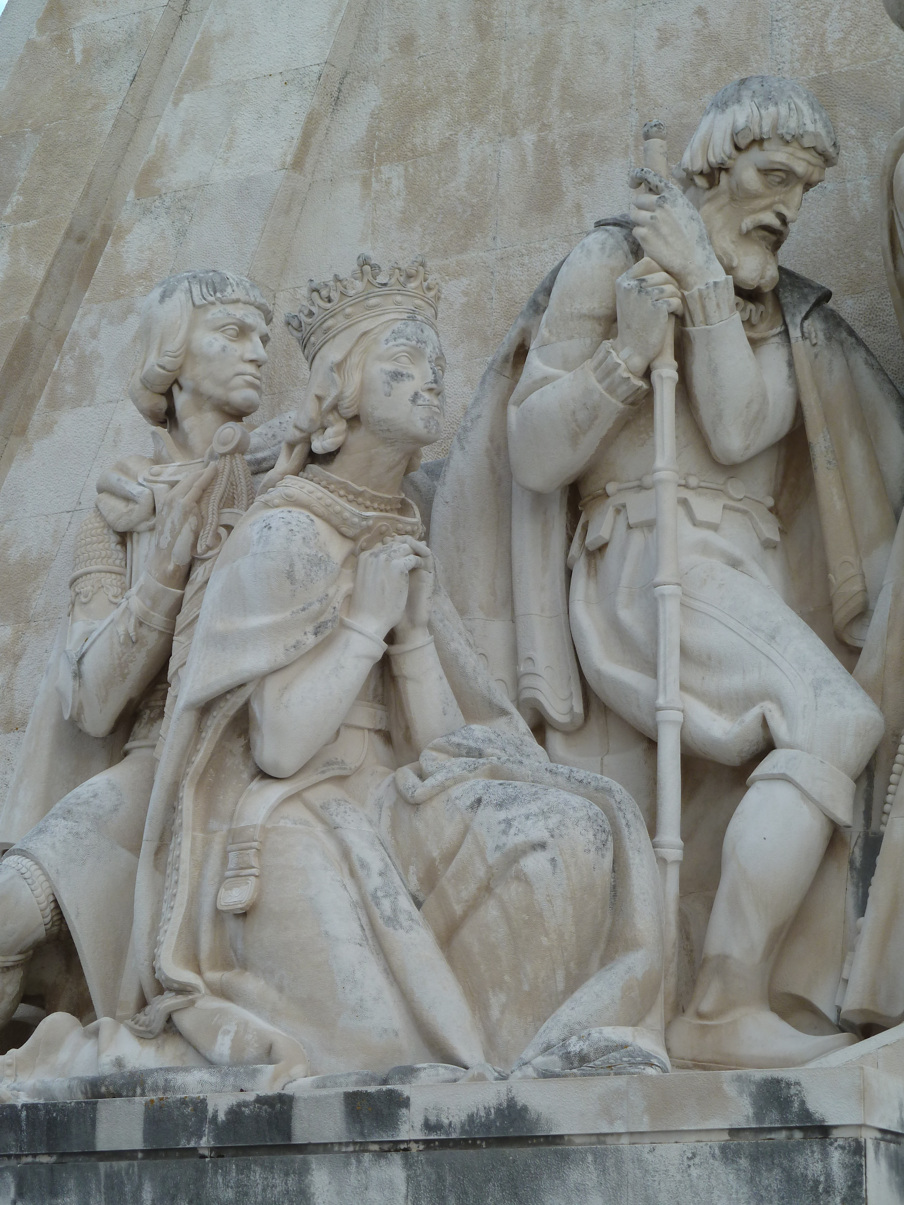 Monument to the Age of Discovery - Padrão dos Descobrimentos in Belem, Lisbon